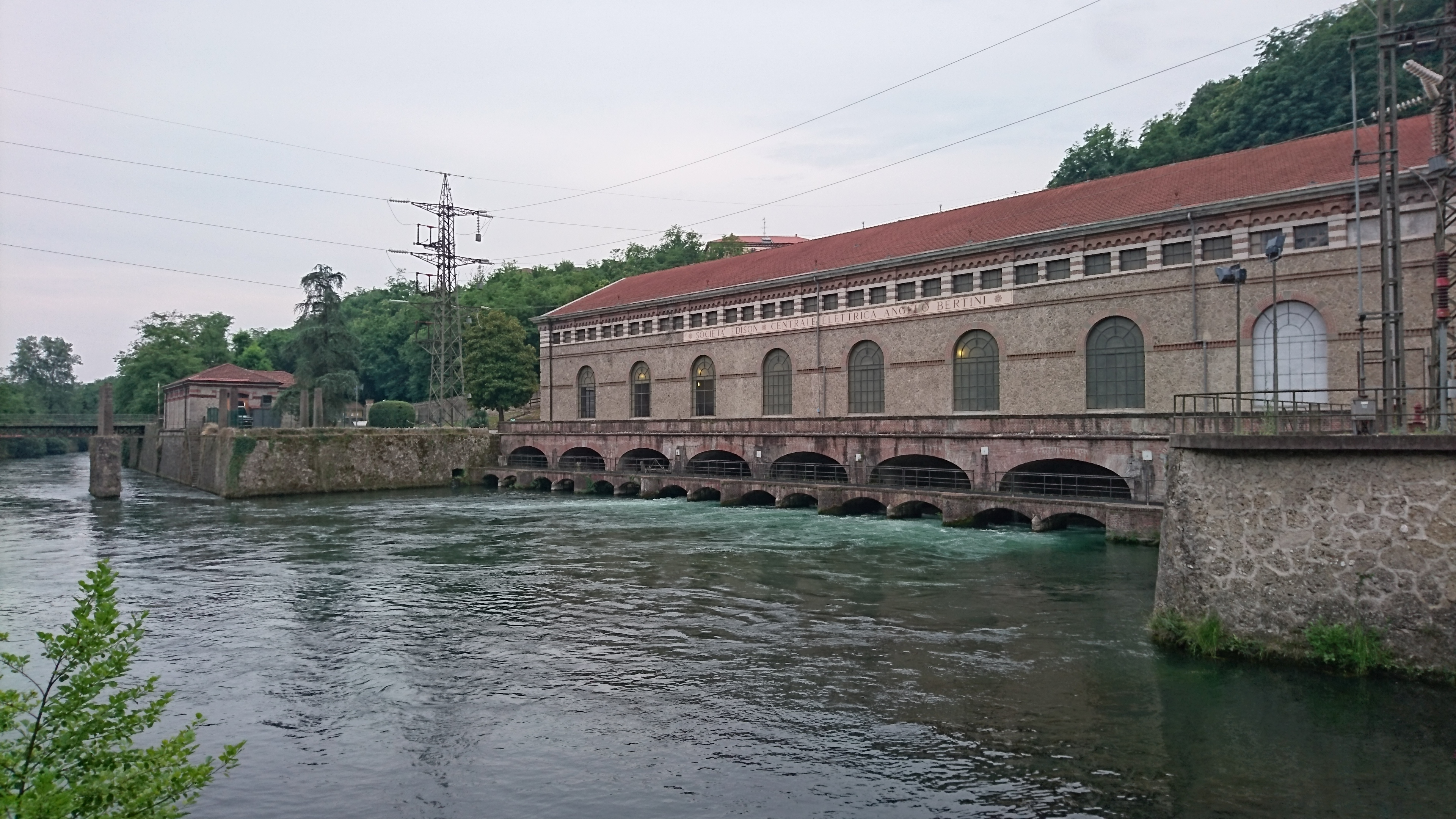 Hydroelectric power plant "Angelo Bertini" - Porto d'Adda